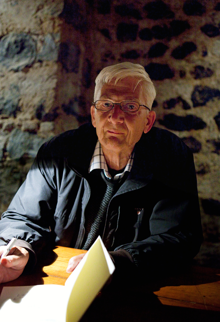 Per Olov Enquist reading at Cologne, Germany